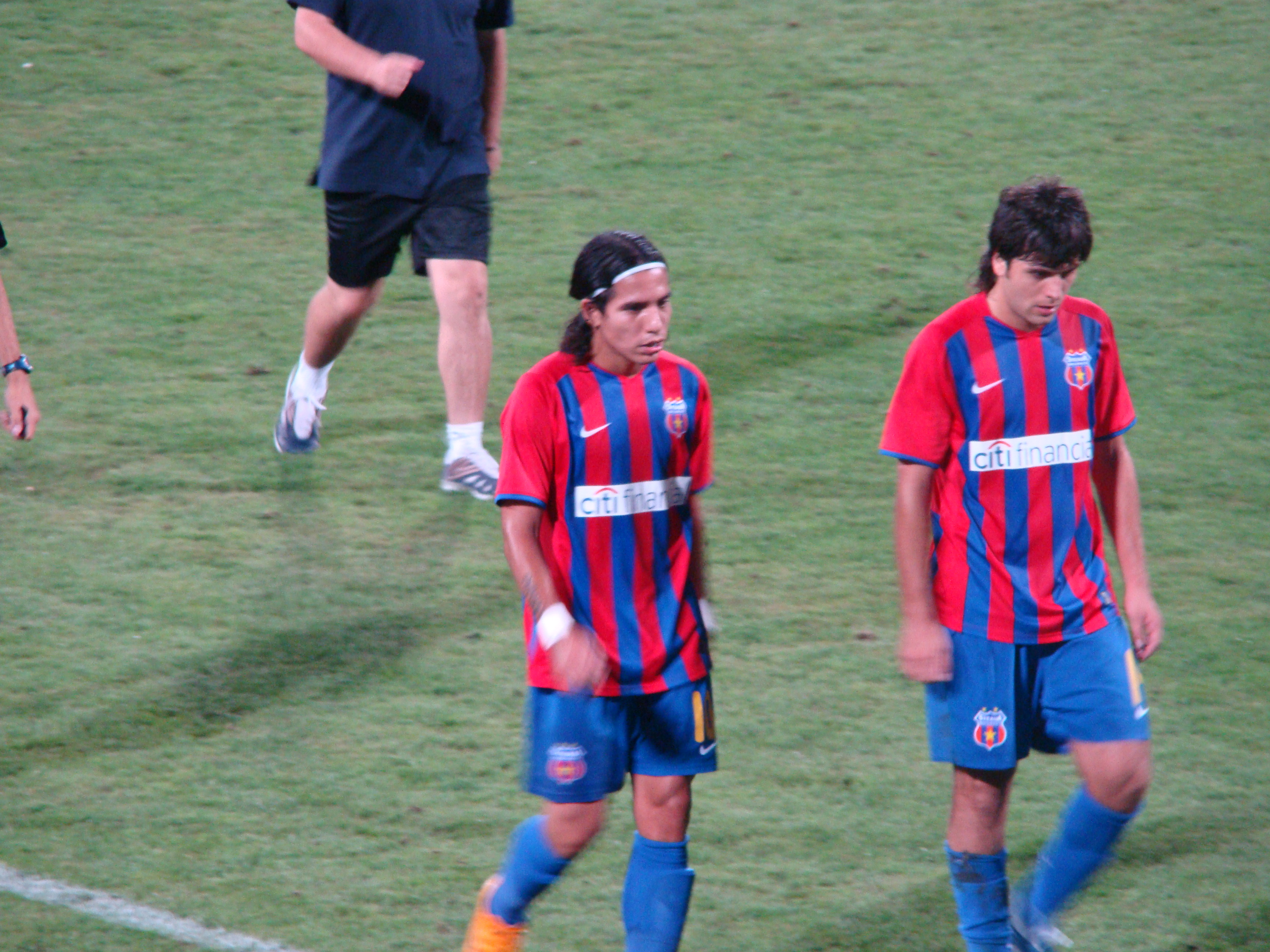 Dayro Moreno and Juan Toja of FC Steaua Bucureşti in a match against CS Pandurii Târgu Jiu at Ghencea.